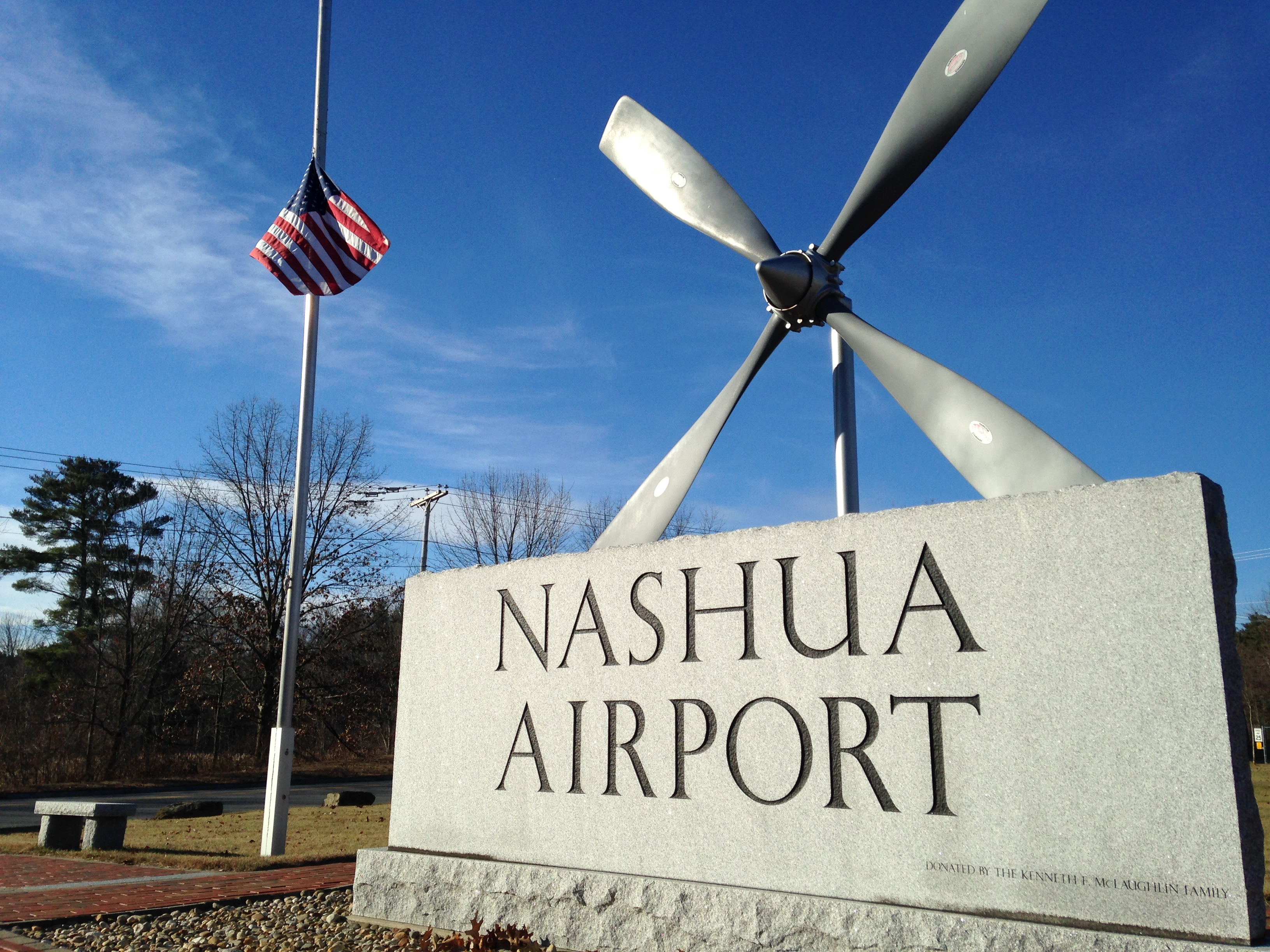 The sign outside the Nashua Airport